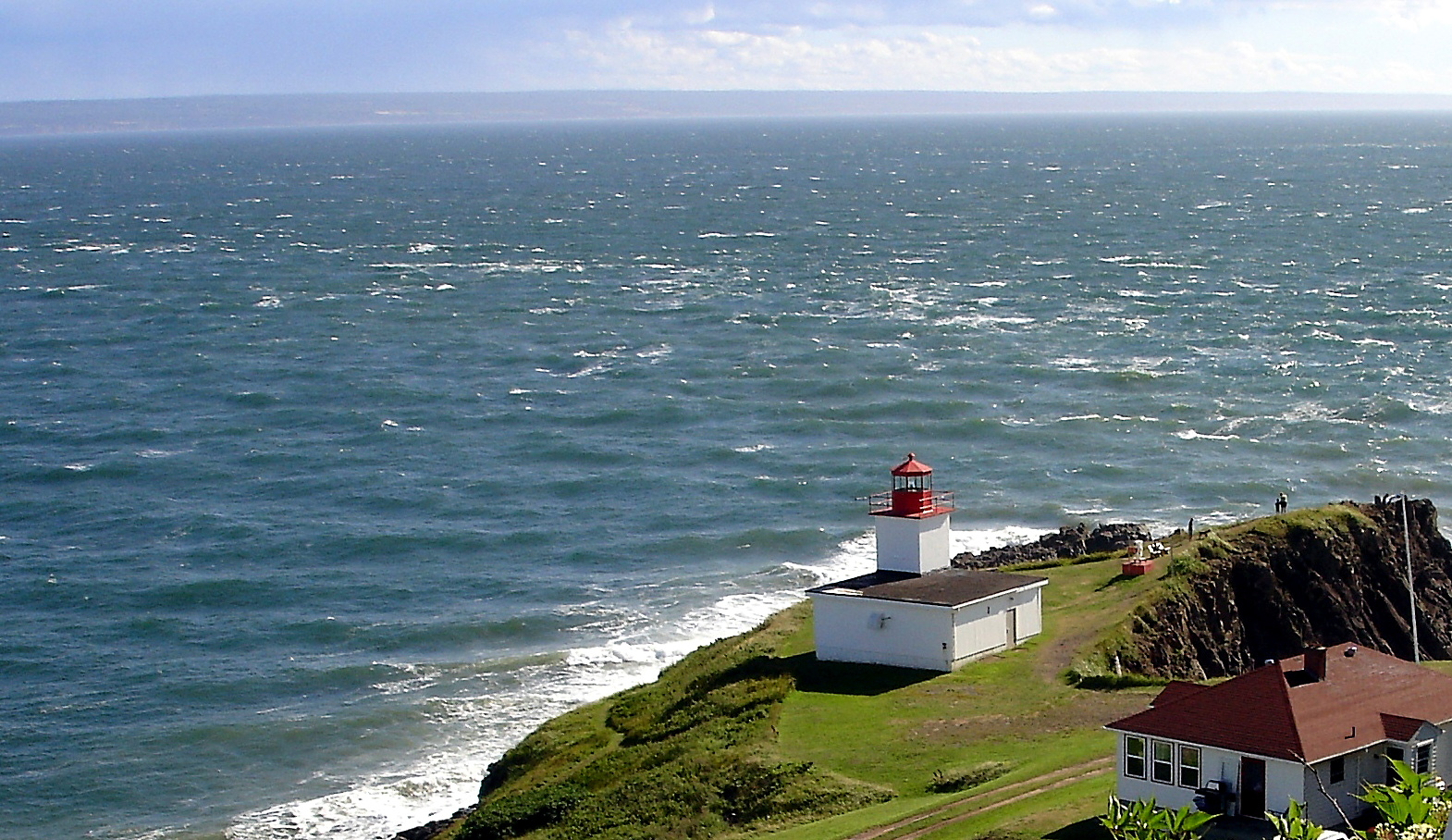 The Dory Rips in the Minas Channel, with the Cape d'Or lighthouse in the foreground, Nova Scotia, Canada